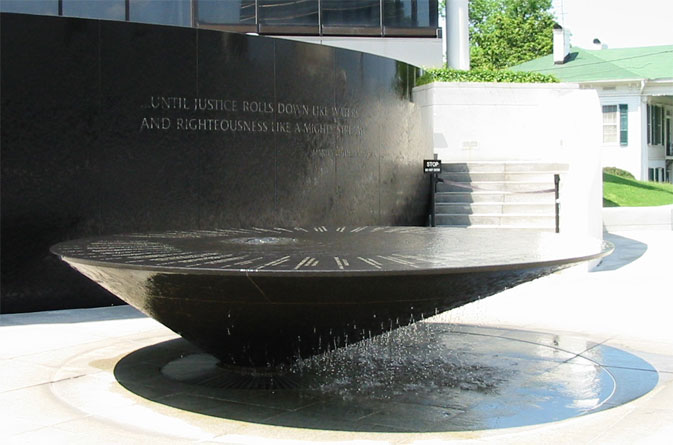 Civil Rights Memorial in Montgomery, Alabama. Photograph by J. Williams. (May 19, 2003). Maya Lin Studio in New York City, designed the Civil Rights Memorial in en:1989.